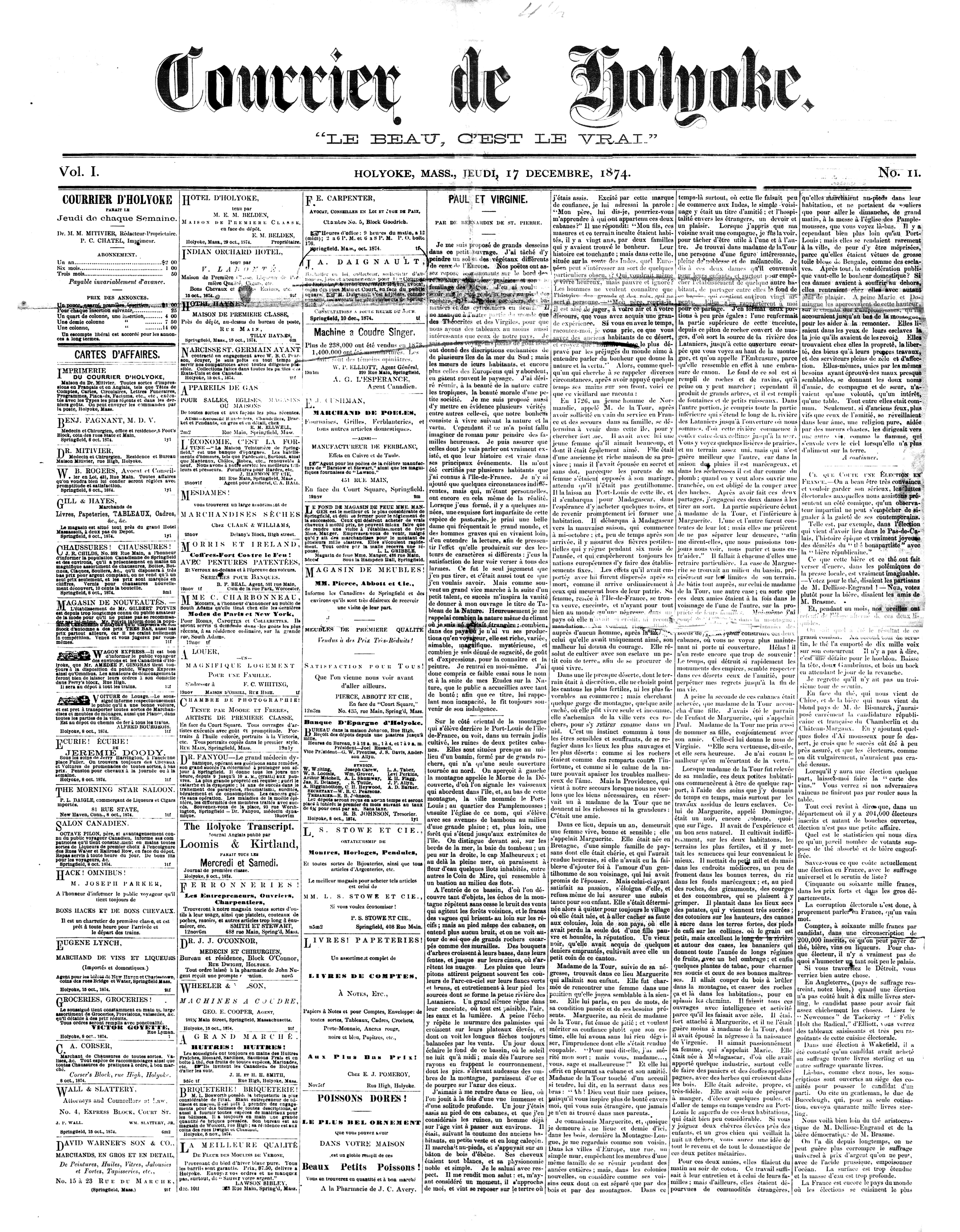 Front page of the December 17, 1874 issue of the Courier de Holyoke or Courier d'Holyoke (both forms being used in publication), a short-lived early French weekly in the city of Holyoke, Massachusetts